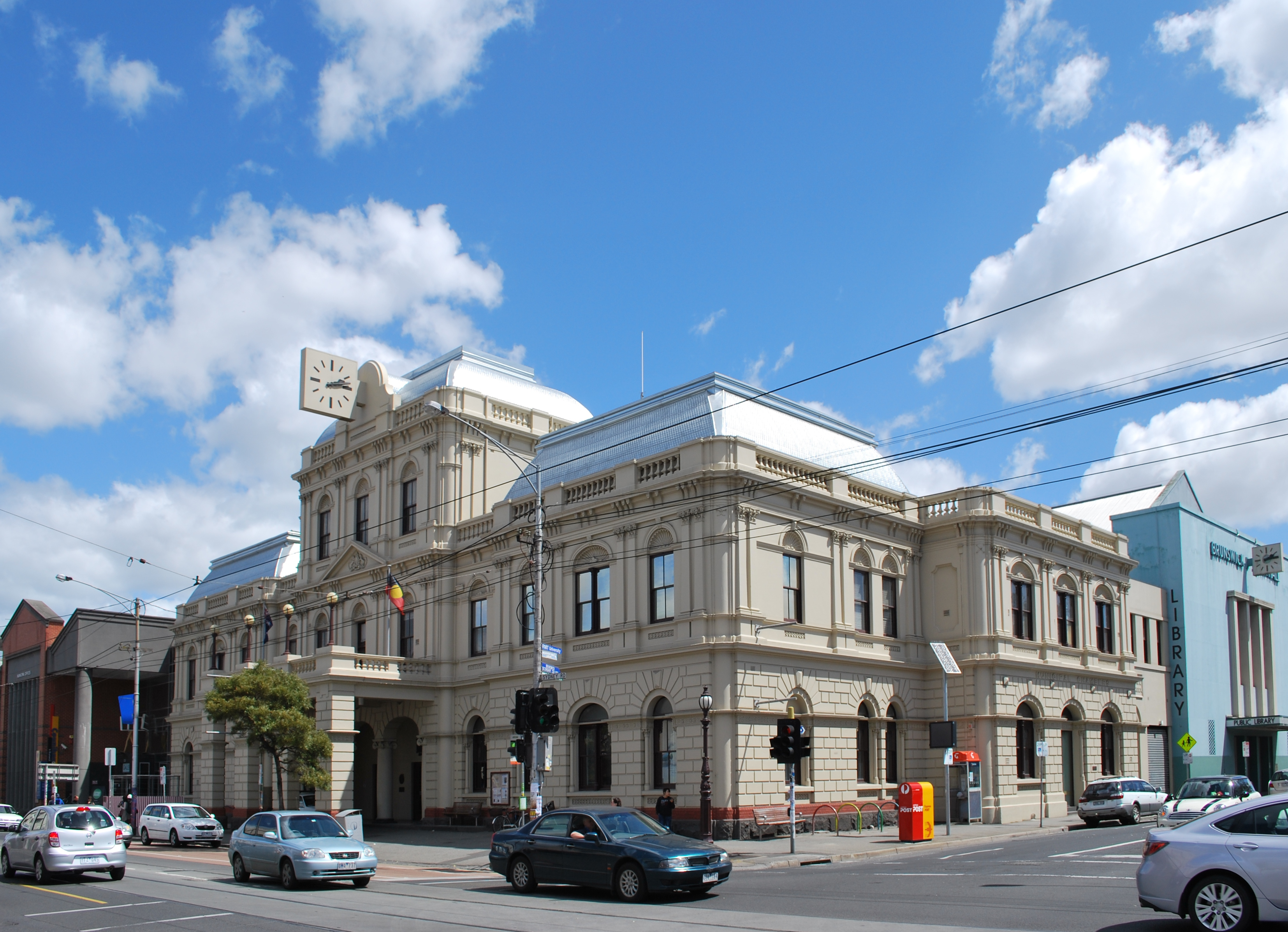 City of Brunswick town hall at Brunswick, Victoria